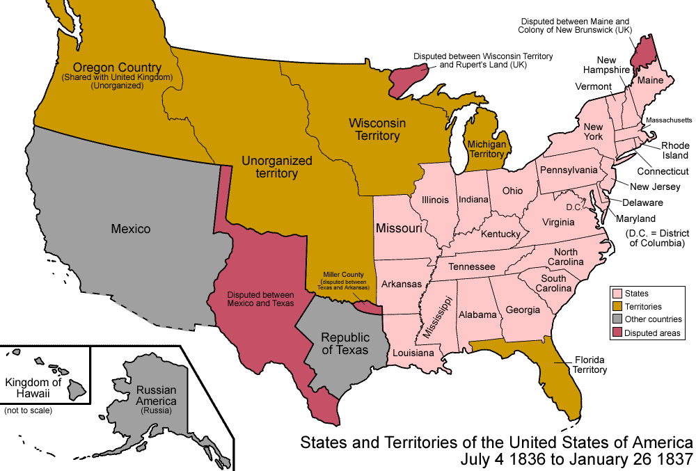 Map of the states and territories of the United States as it was from July 1836 to January 1837. On July 4 1836, Wisconsin Territory was split off from Michigan Territory. On January 26 1837, Michigan Territory was admitted as the state of Michigan.